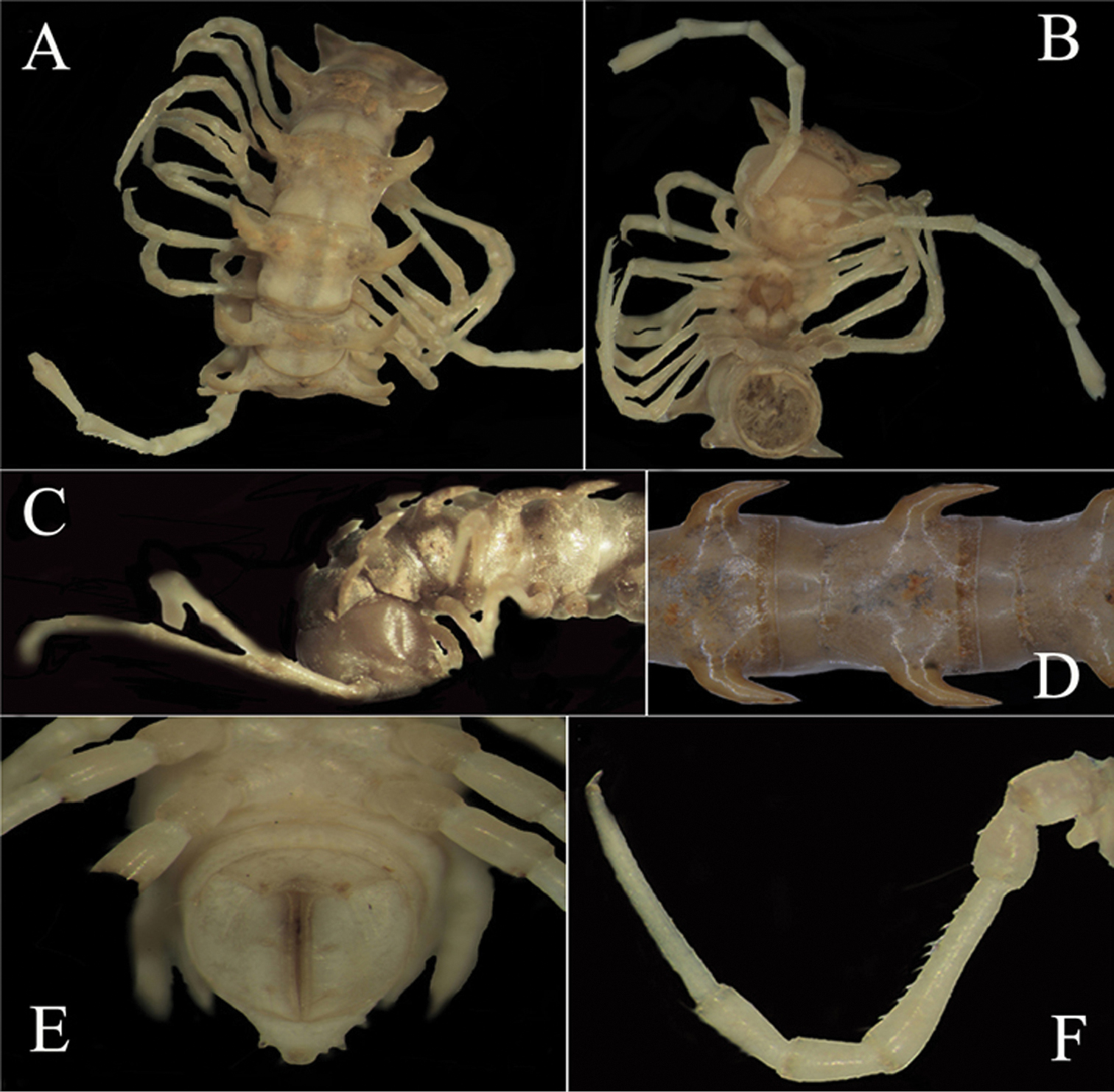 Desmoxytes eupterygota sp. n., ♂ paratype from near Tianhe. A–C anterior part of body, dorsal, ventral and lateral views, respectively D midbody segments, dorsal view E telson, ventral view F midbody leg, front view. Photographs not to scale.